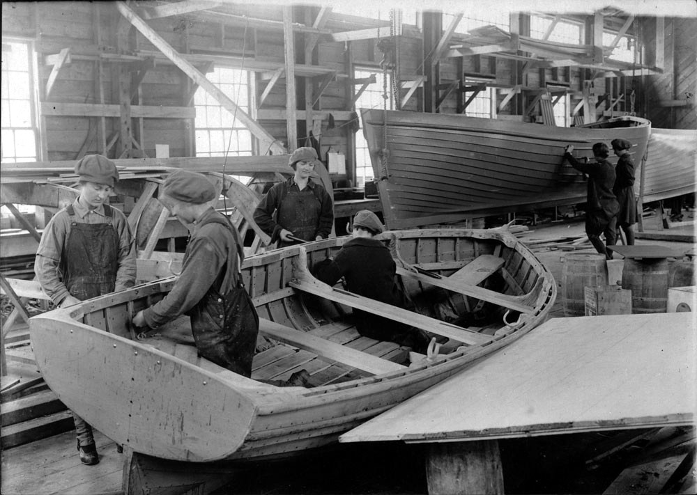 Women workers at Dr Alexander Graham Bell's laboratory Beinn Bhreagh, Baddeck, Nova Scotia, Canada. The Bells often employed local women from Baddeck and other places. The main focus throughout the war (World War I) was a program ran from the estate by Mabel Bell’s former secretary Gretchen Schmitt. The Bells converted one of the houses on their estate into a residence for the women from out of town. During the war the Bell Boatyard consisted of a large open shed that was used as the primary shed to build lifeboats for the Canadian Navy. During this time the boatyard was managed by a Sydney native by the name of Walter Pinaud. The boat yard also produced the 55’ yawl Elsie designed by naval architect George Owen and built by Walter Pinaud. Elsie was built as a gift for the Bells daughter Elsie Bell Grosvenor and her husband Gilbert Grosvenor.